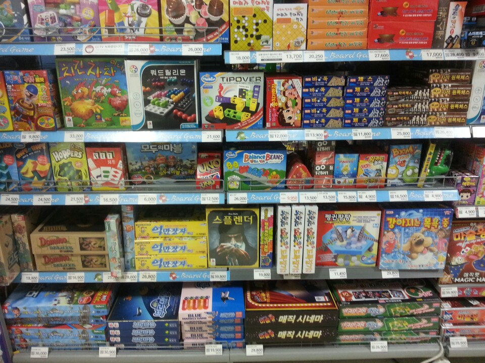 Board games in a Korean hypermarket.